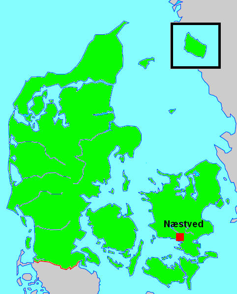 Map of Denmark with the location of the city Næstved.